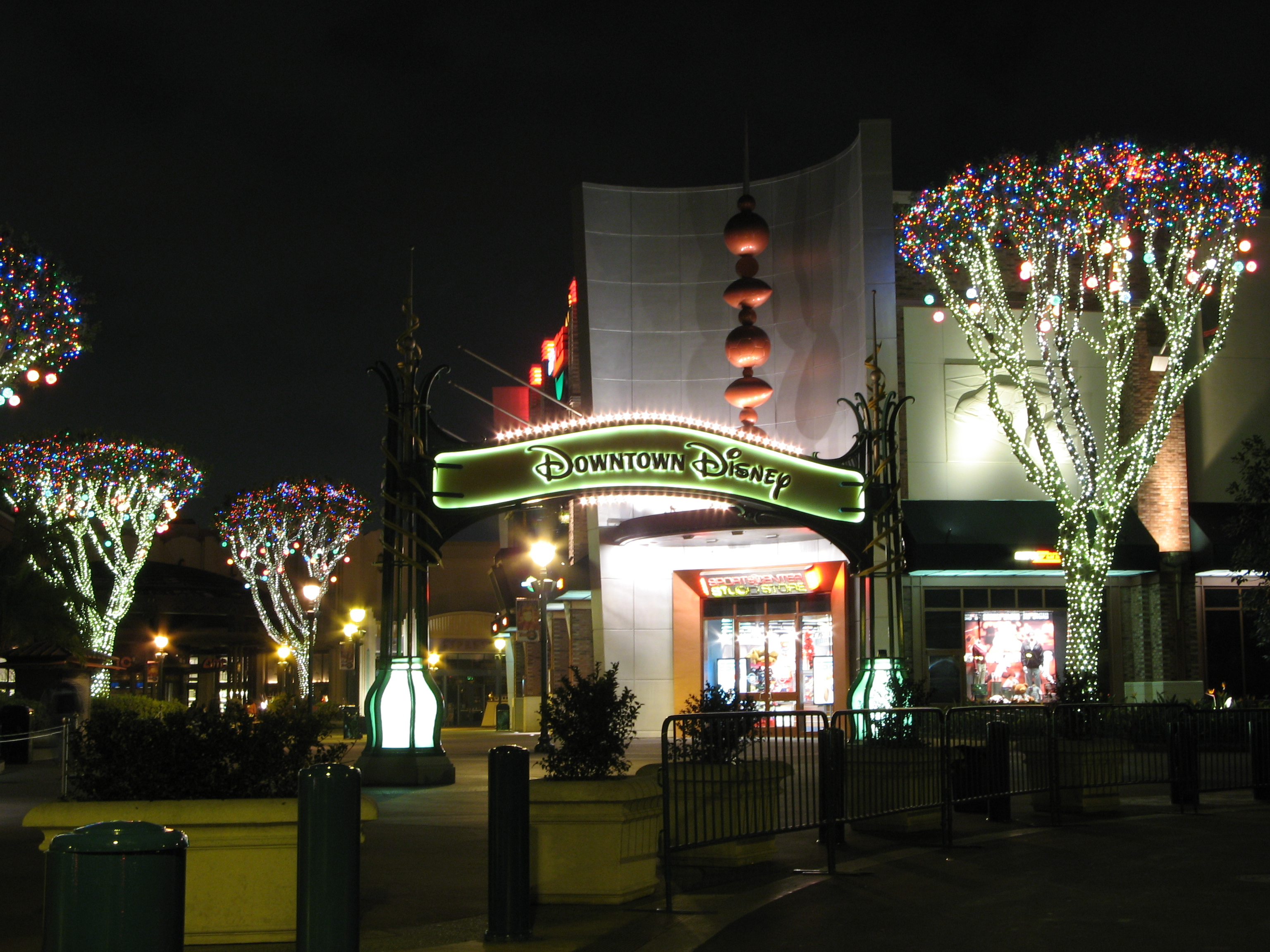 The entrance arc of Downtown Disney (California).